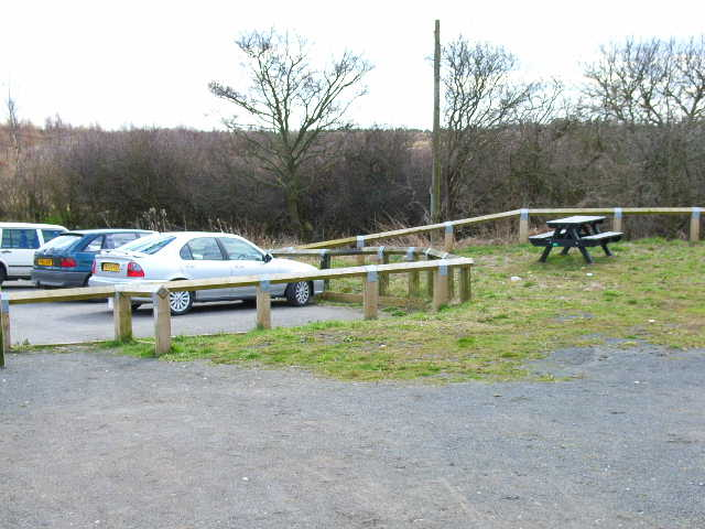 Hurworth Burn Picnic Site Giving access to the Castle Eden Walkway